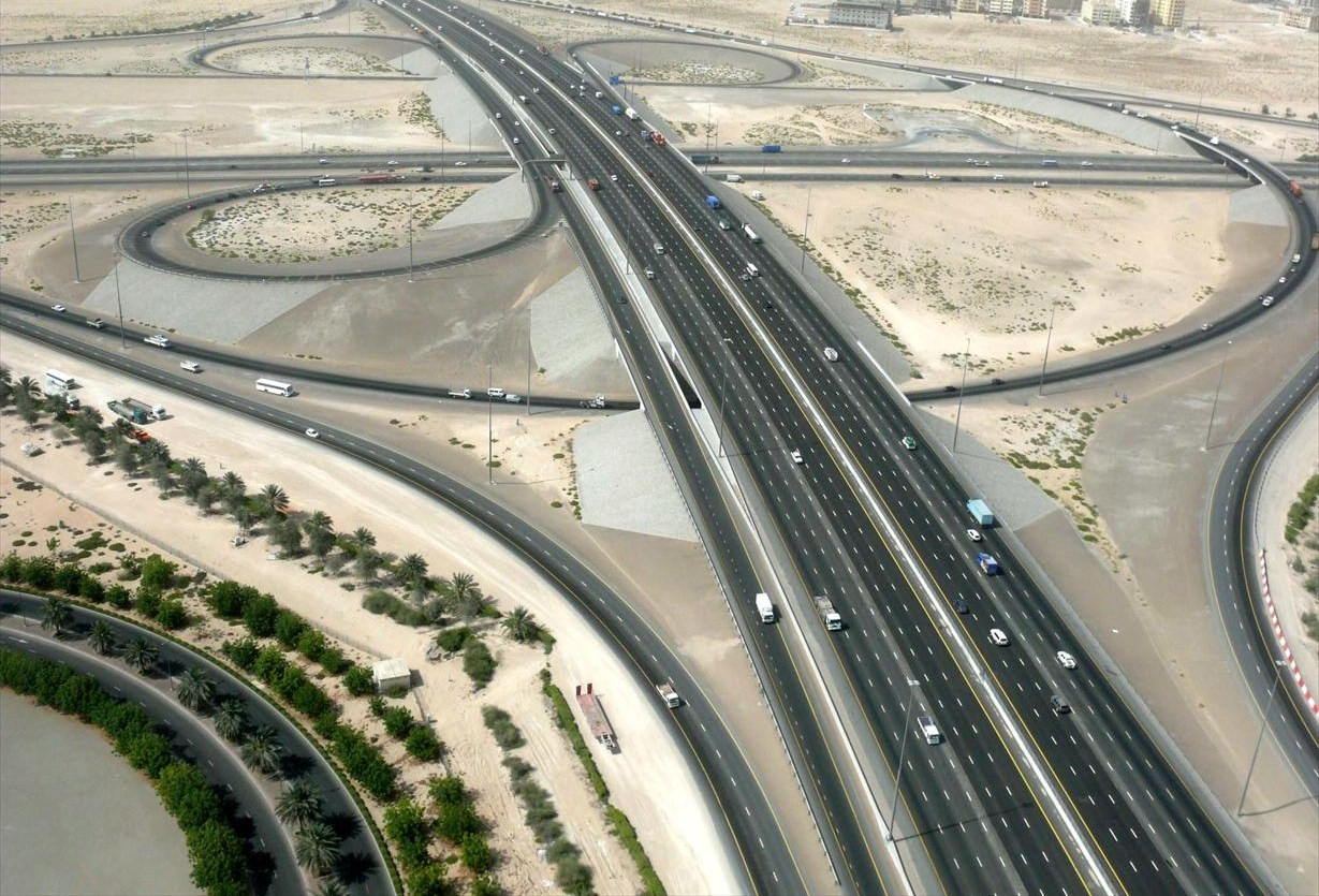 An aerial view of the interchange of Emirates Road (E 311; top to bottom) and the Al Khail Highway (E 44; left to right) in Dubai, United Arab Emirates. This image was taken from a helicopter ride courtesy of Nakheel.